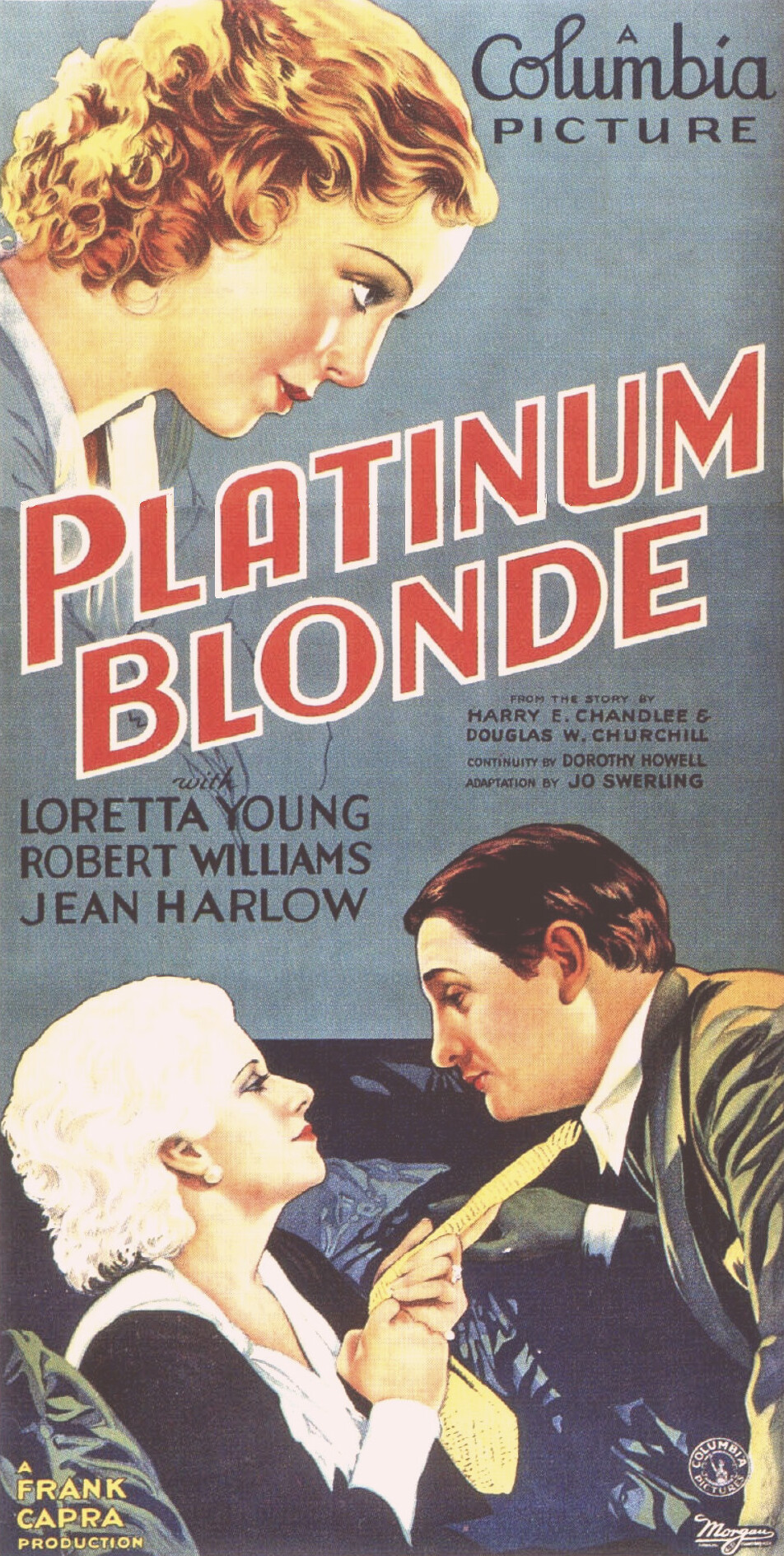 Poster for the American romantic comedy film Platinum Blonde (1931). The item has no copyright marks on it as can be seen at links and original upload. At bottom right are logos for Columbia and Morgan Litho Company--they printed the poster.